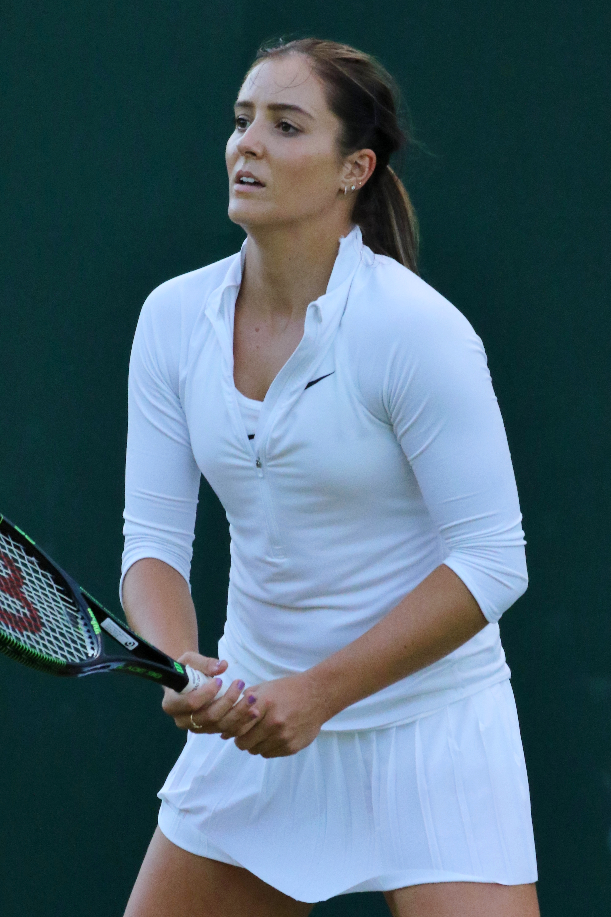 Robson WM16 (7)